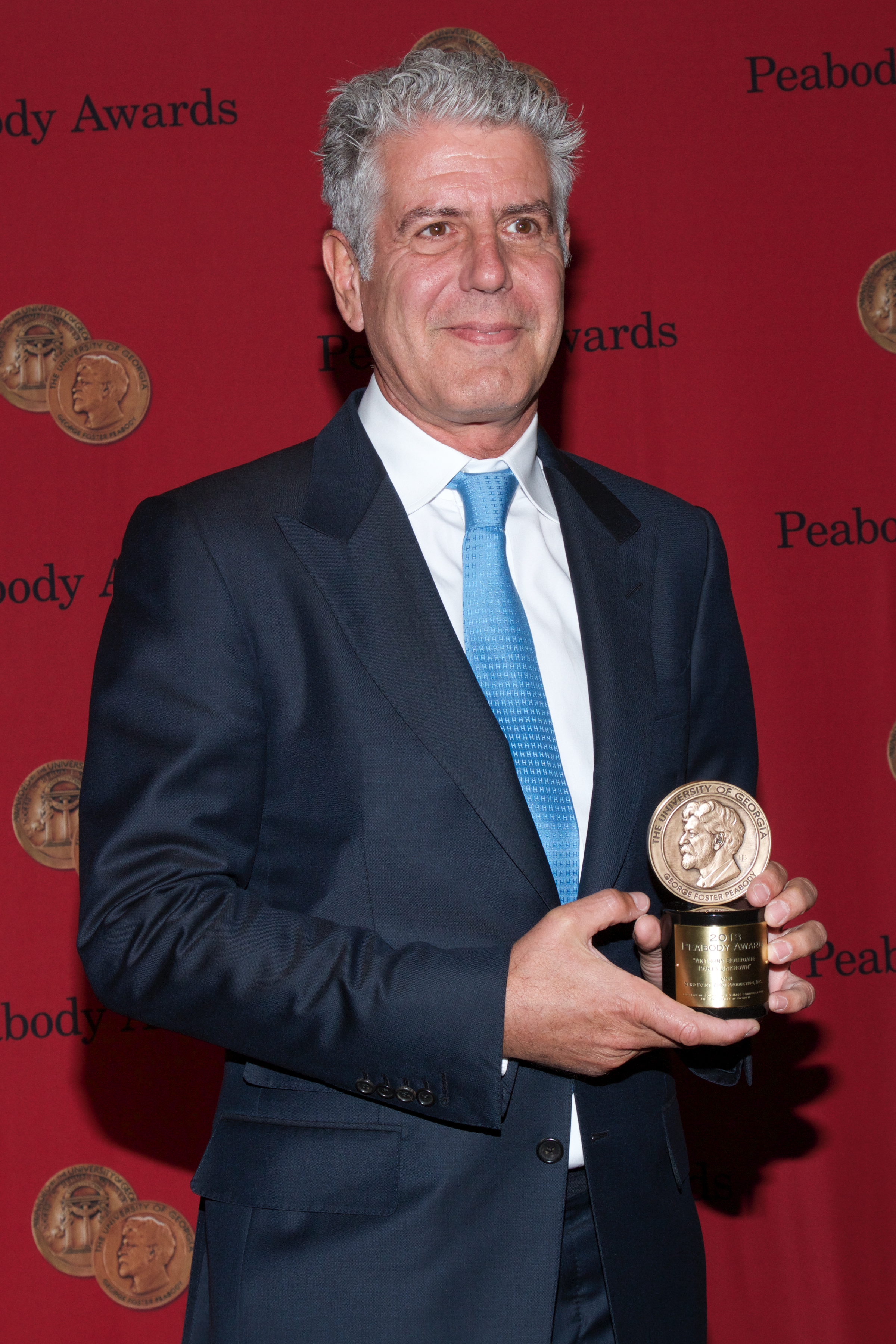 Anthony Bourdain won a Peabody for "Parts Unknown"